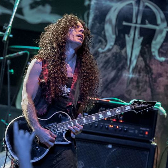 Marty Friedman live in the USA with his Jackson signature guitar in 2016.